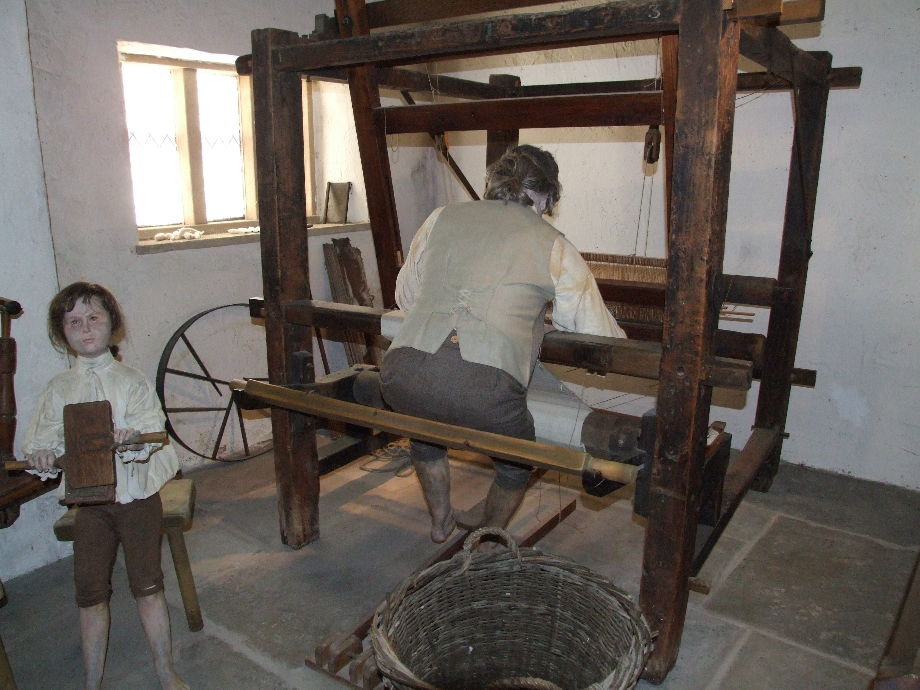 Helmshore Mills Textile Museum.